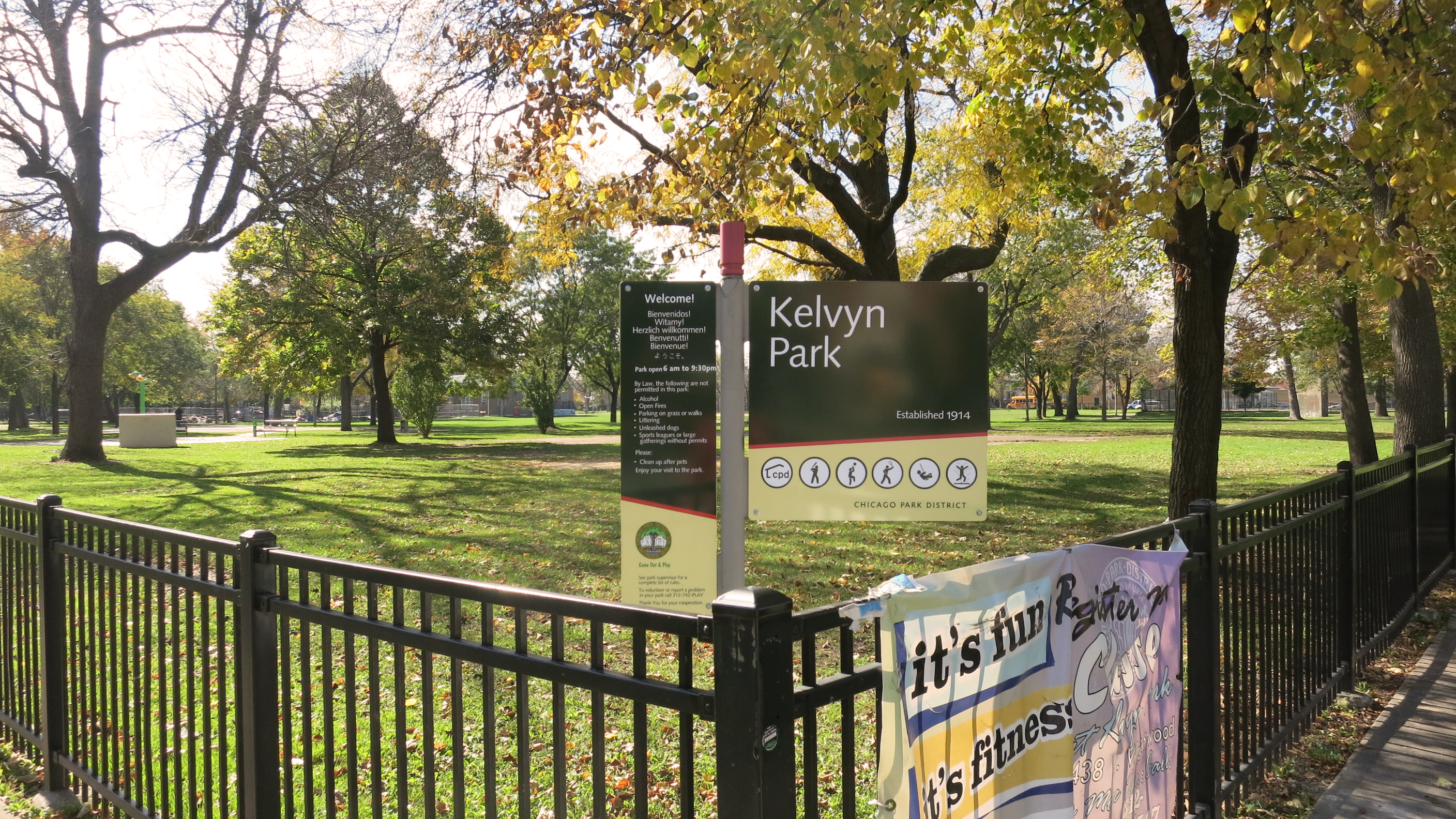 Established in 1911, Kelvyn Park is among the original parks of the Northwest Park District. The eight and one-half acre park features a field house with a fitness center, gymnasium, auditorium, several meeting rooms, and a small kitchen.